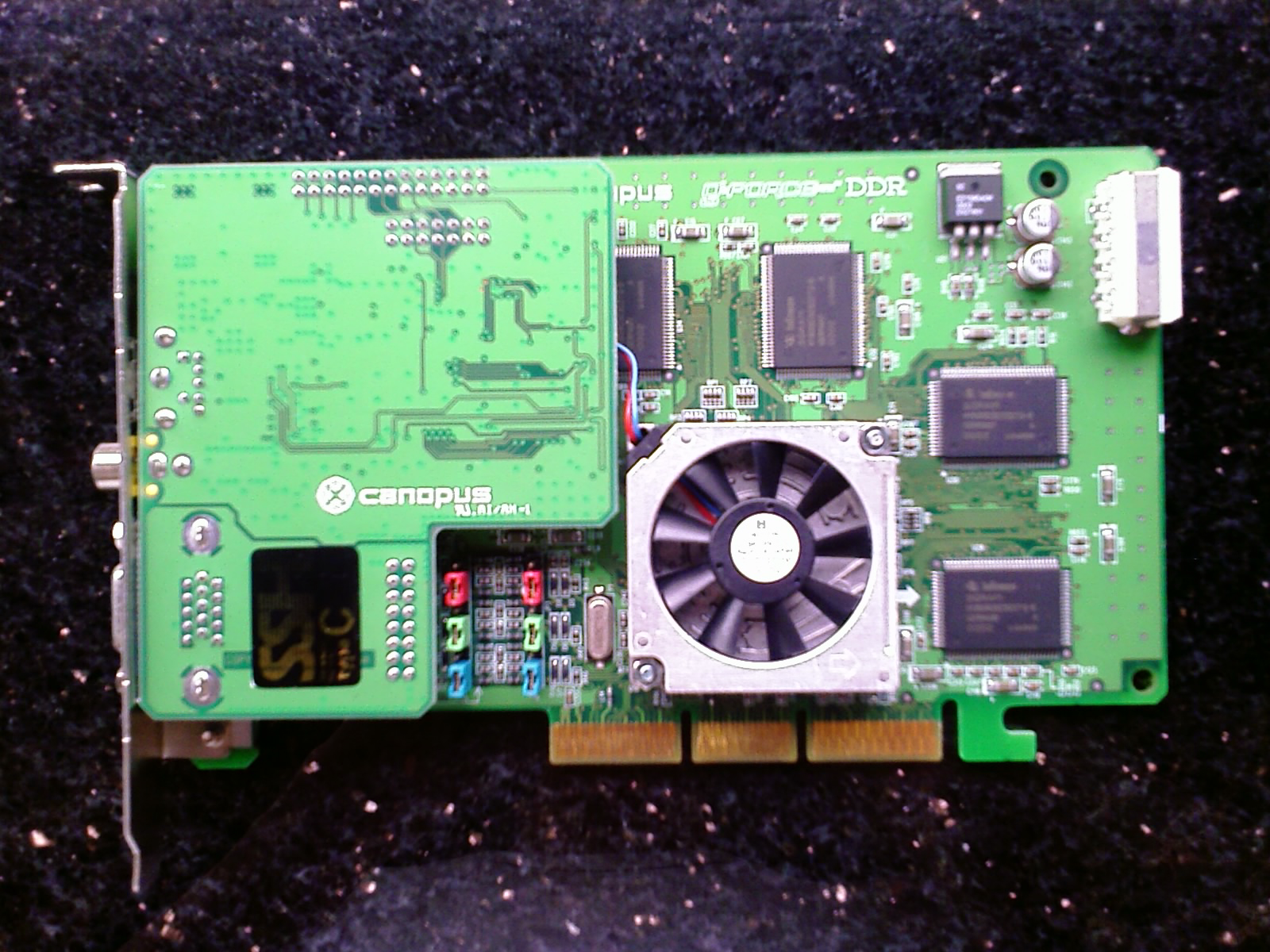 Canopus GeForce 256 DDR Graphic card